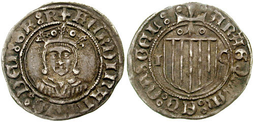 Spain - Aragon. Fernando el Católico, 1479-1516. AR Half Real or «Aragonés» (22mm, 1.81 gm). +FERDINANDVS: DEI: GR: R, crowned bust facing (cross with annulets) ARAGONVM: ET: CASTEL:, I C flanking arms of Aragon. C&C 2185; Crusafont 639 var. (obv. legend). Toned, good VF.